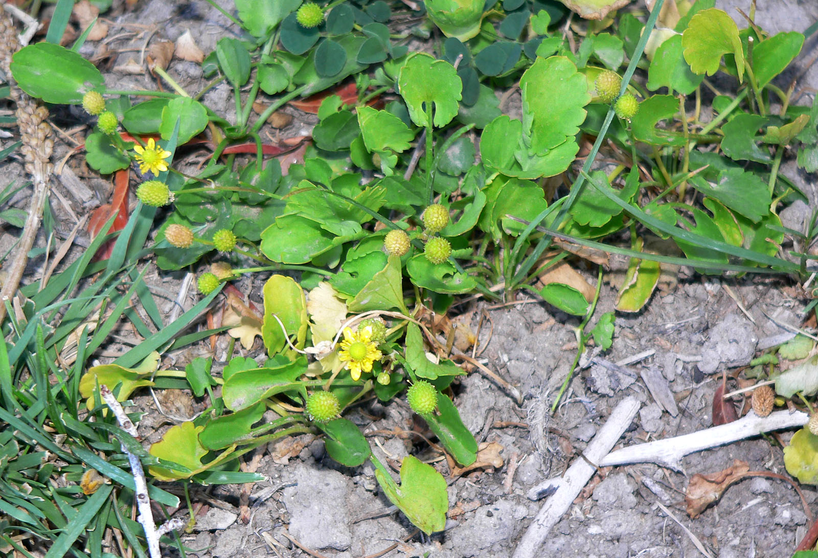 Ranunculus cymbalaria near Cold Creek Fire Station, Spring Mountains, southern Nevada (elev. about 1800 m)